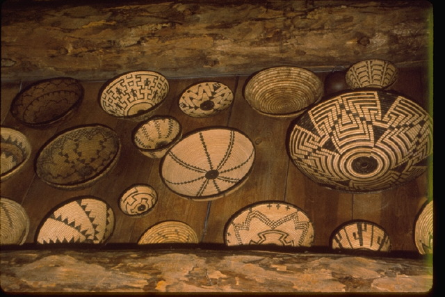 Old Indian baskets, at Hubbell Trading Post National Historic Site